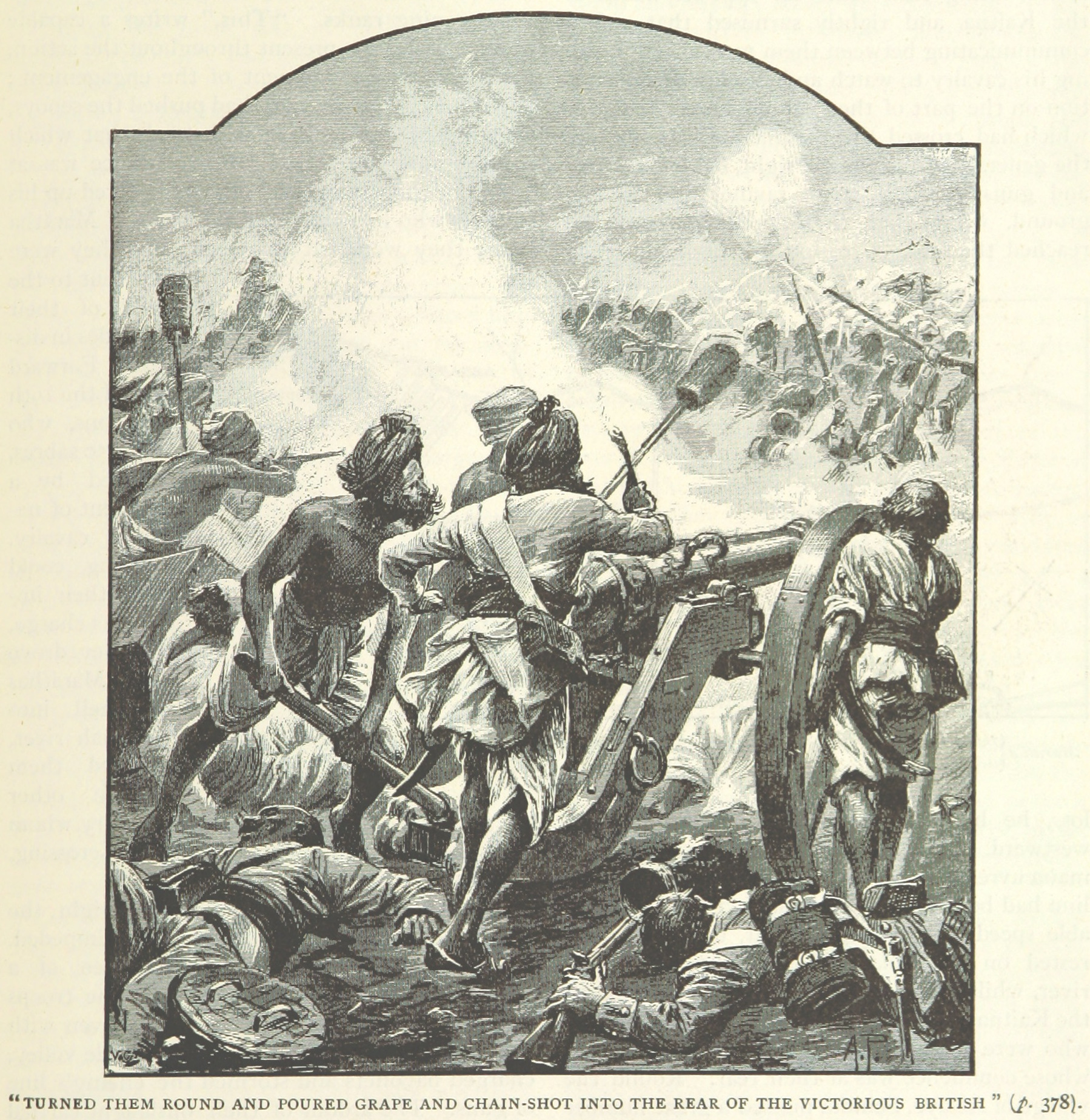 At the 1803 Battle of Assaye, Maratha gunners who played dead swing their guns around to target the British infantry who have passed them.